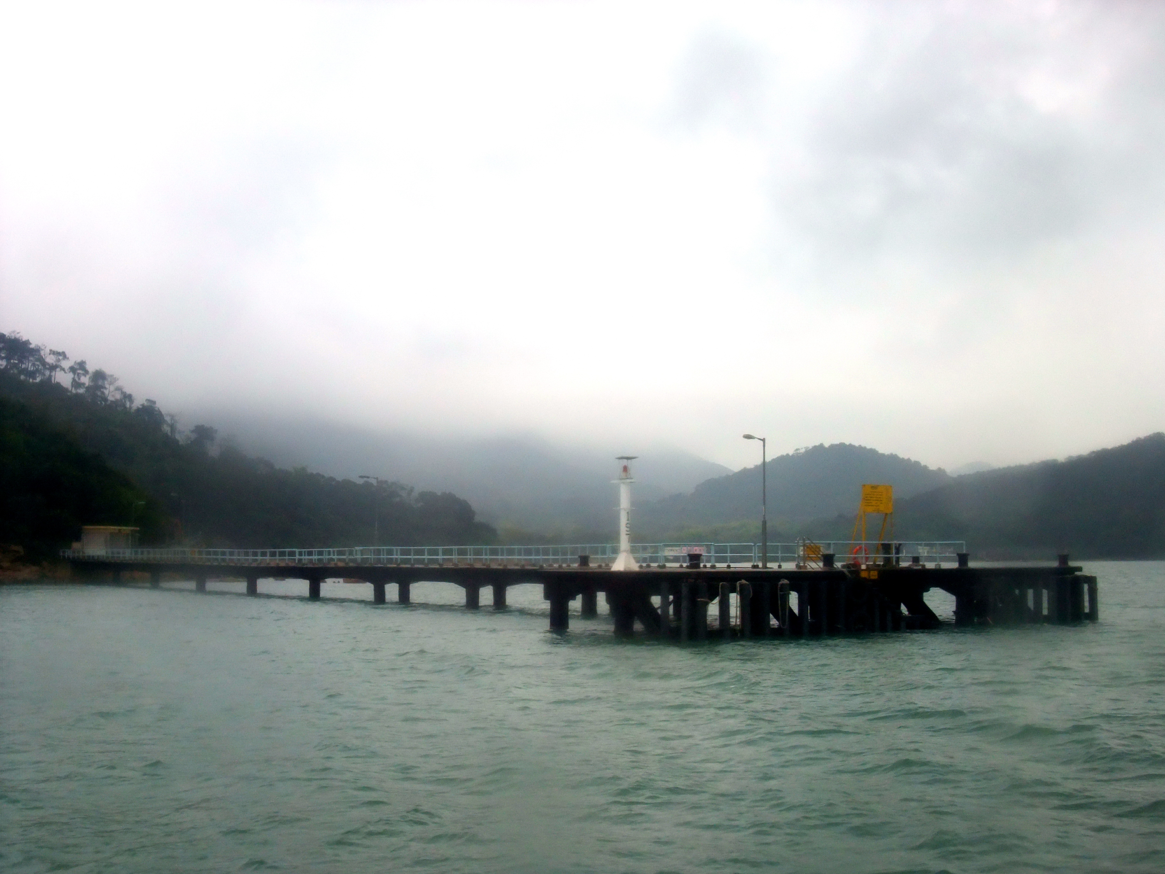 Sha Lo Wan Pier, Lantau Island, Hong Kong.